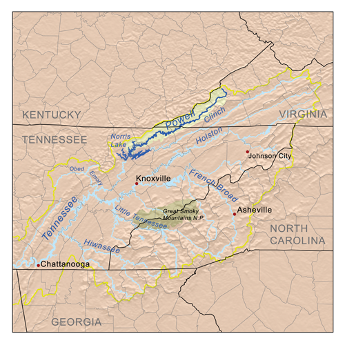 Map of the Powell River watershed.